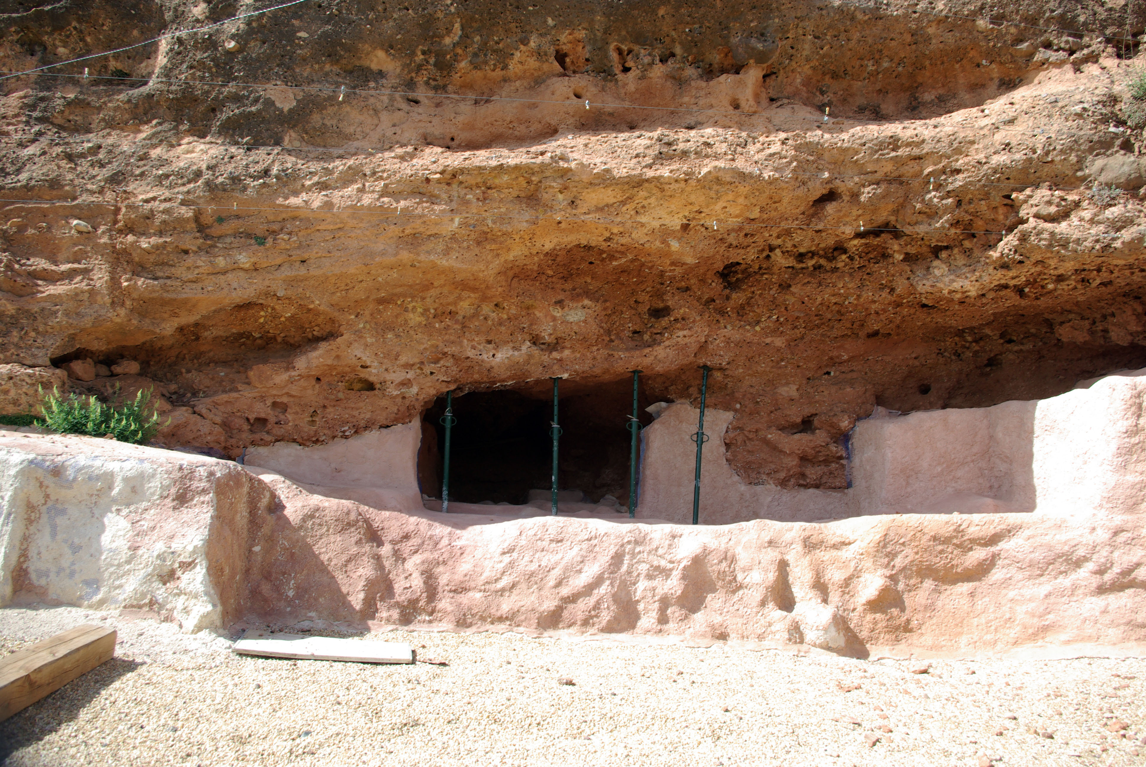 La Peña rock shelter, near Estebanvela, Segovia (Spain)